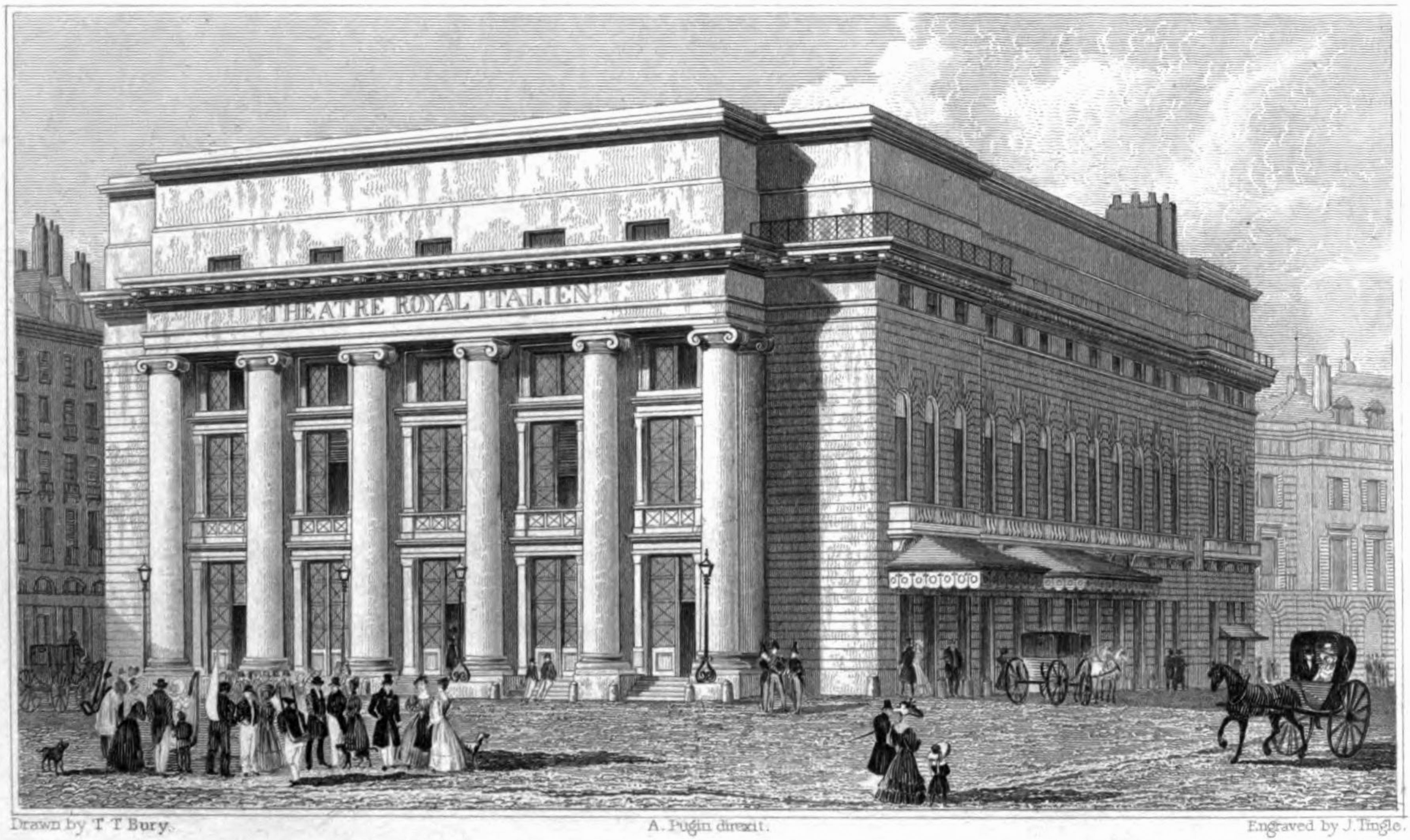 The first Salle Favart, built in 1783, destroyed by fire in 1838